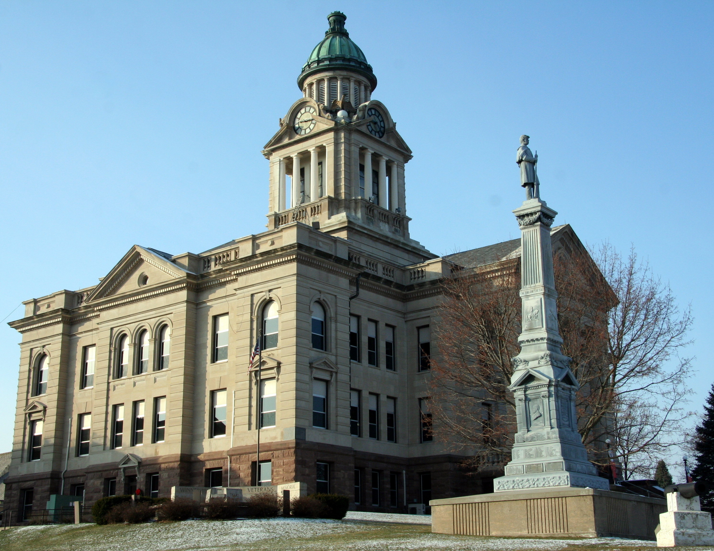 Winneshiek County Courthouse and Civil War Monument as seen from Main and Winnebago Streets in Decorah, Iowa